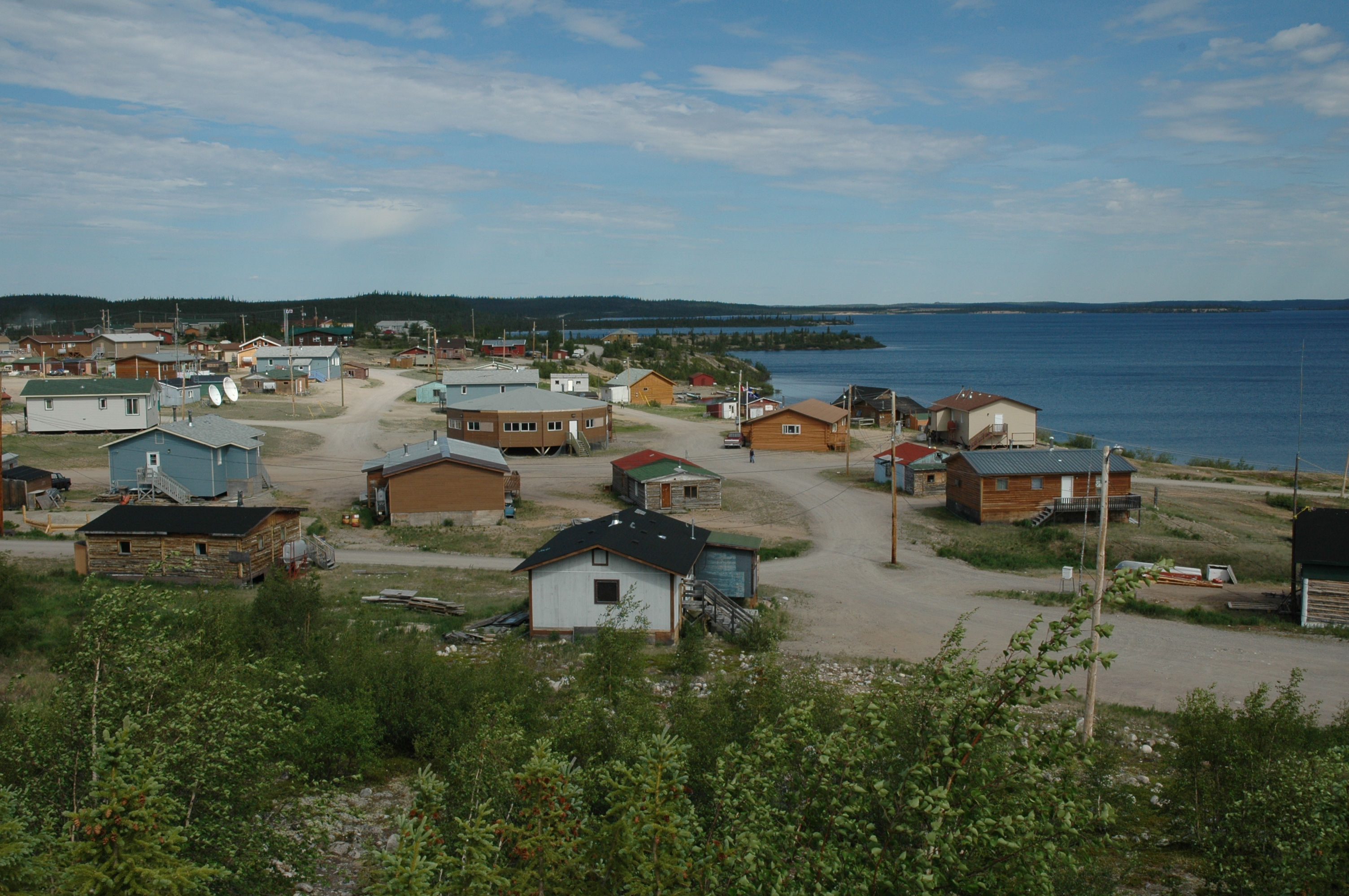 Wekweeti, Northwest Territories, Canada